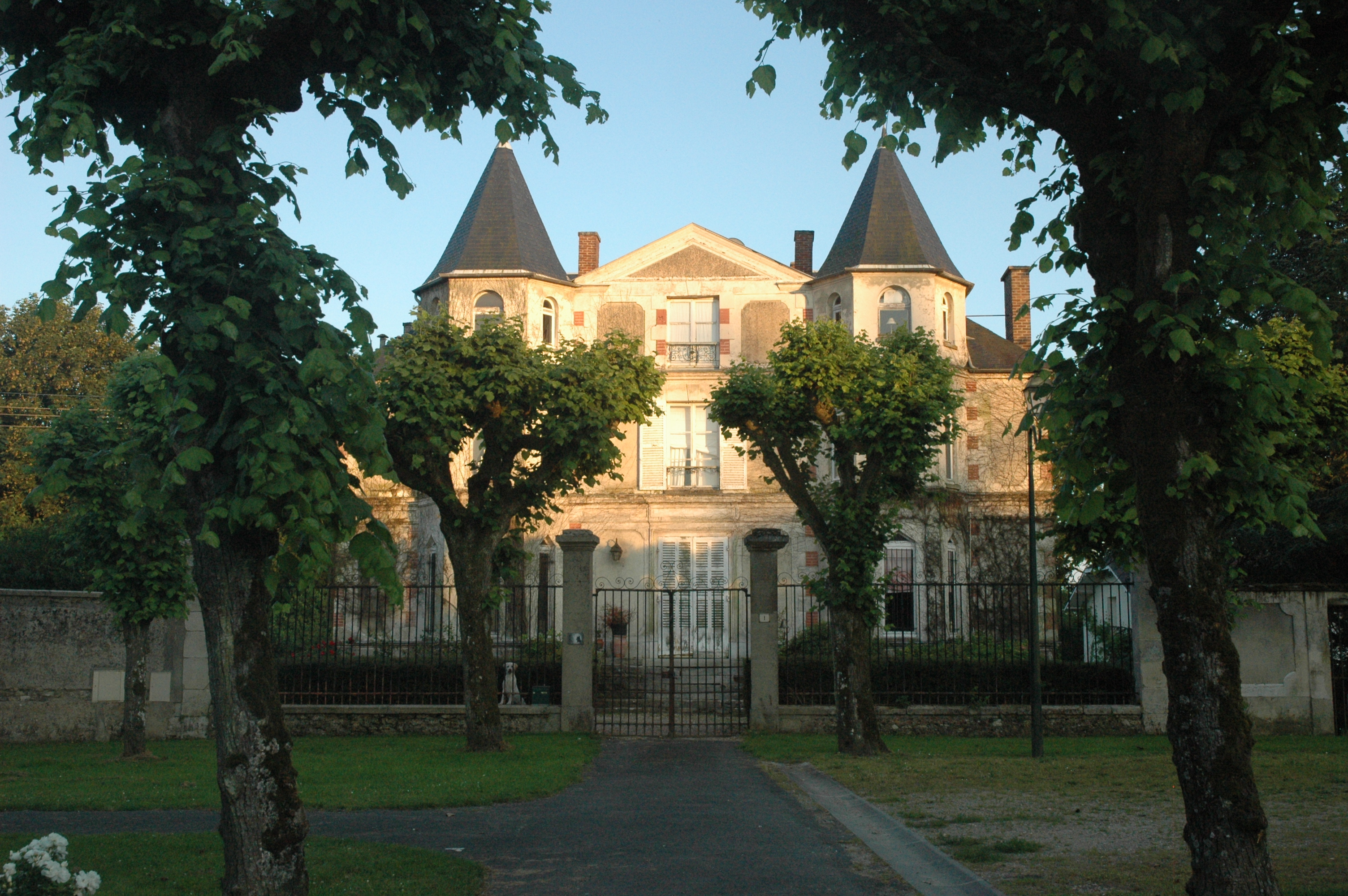 photo of Little castle on Aincourt's village square